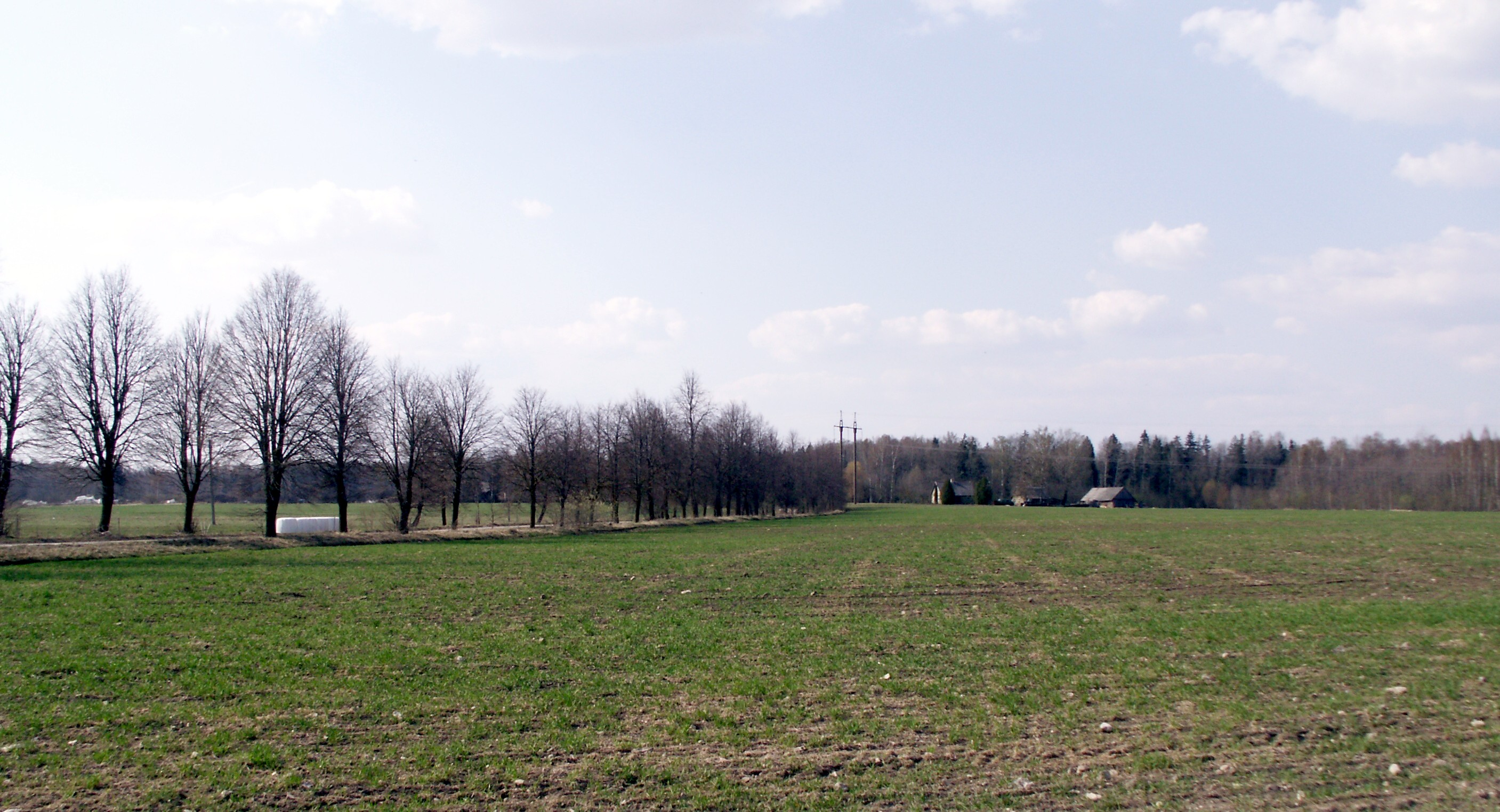 Spalviškiai, Biržai district, Lithuania